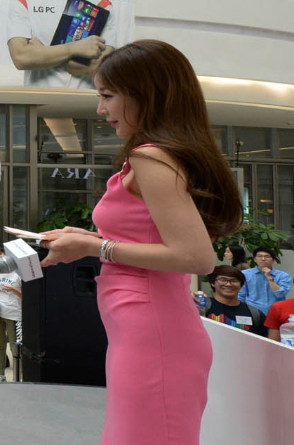 Won Ja-hyun (원자현) on June 21, 2014